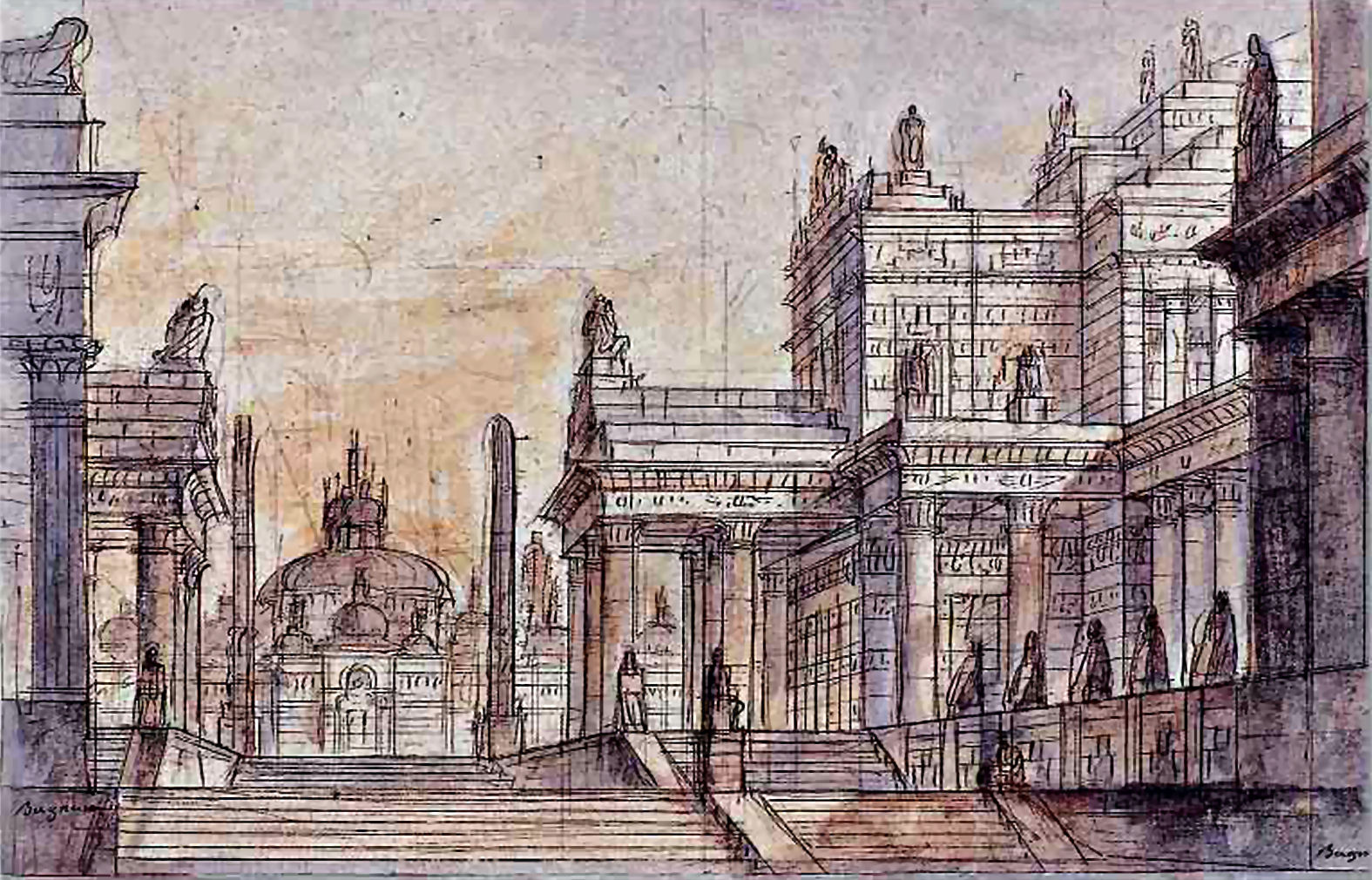 Francesco Bagnara's stage set (1824) for Giacomo Meyerbeer's Il crociato in Egitto (Act II, Scene 5)